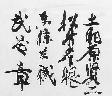 Last writing of Kenji Doihara (Class-A war criminal), Iwane Matsui (Class-B and C war criminal), Hideki Tojo (Class-A war criminal) and Akira Muto (Class-A war criminal)